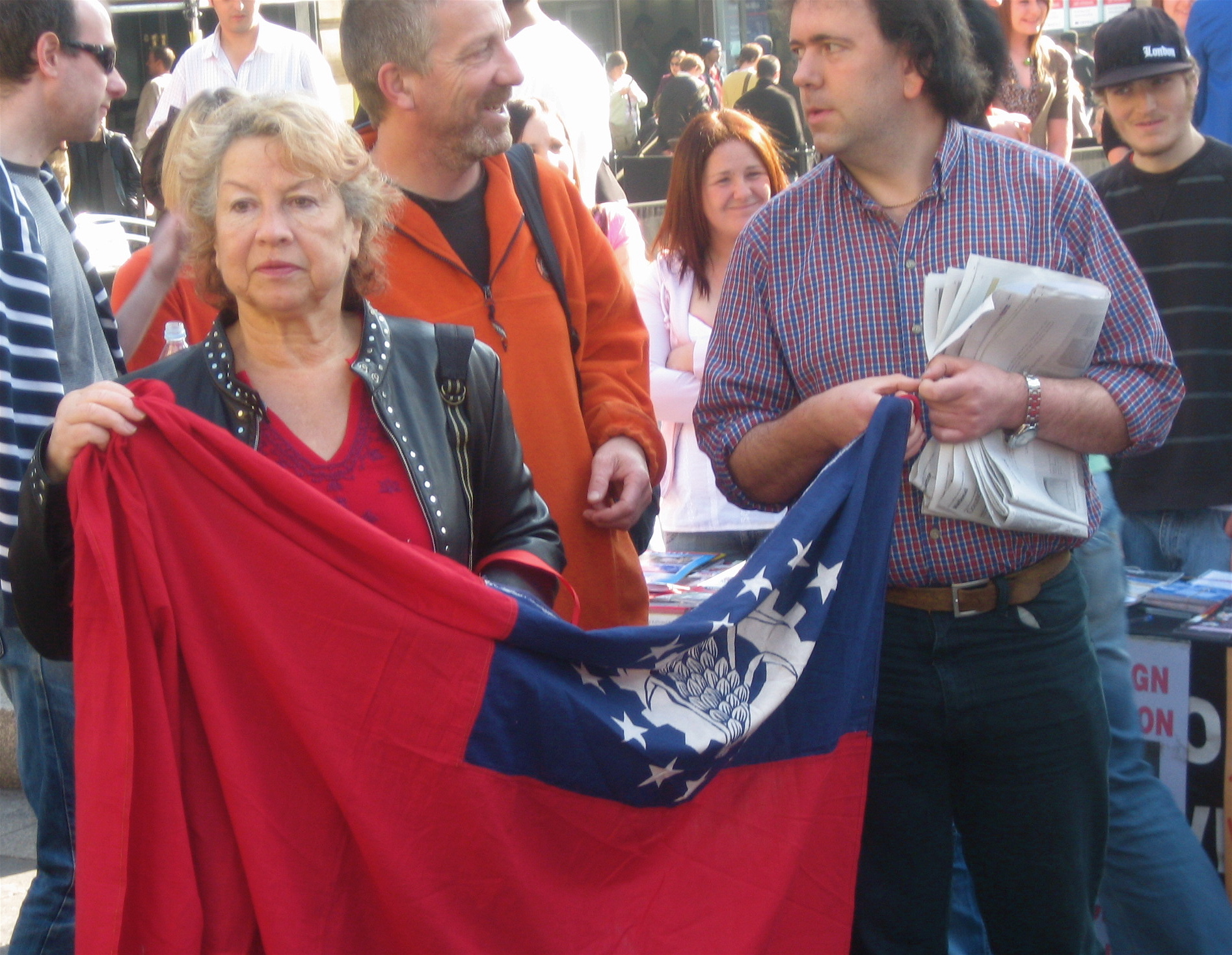 Burma solidarity walk, Newcastle, 6 October 2007. Tenuous Link: flag